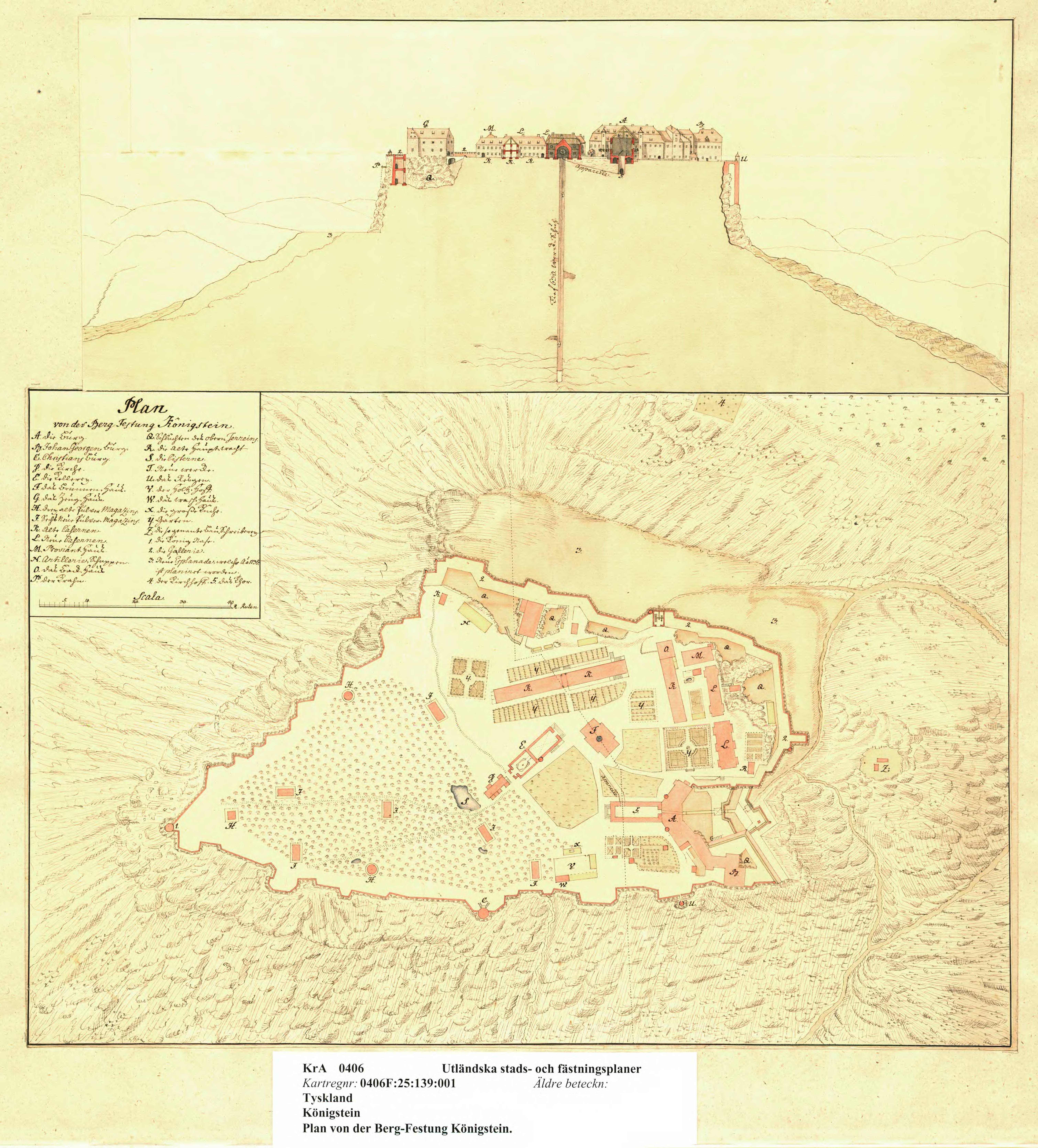 Festung Königstein - profile and ground plan, around 1690